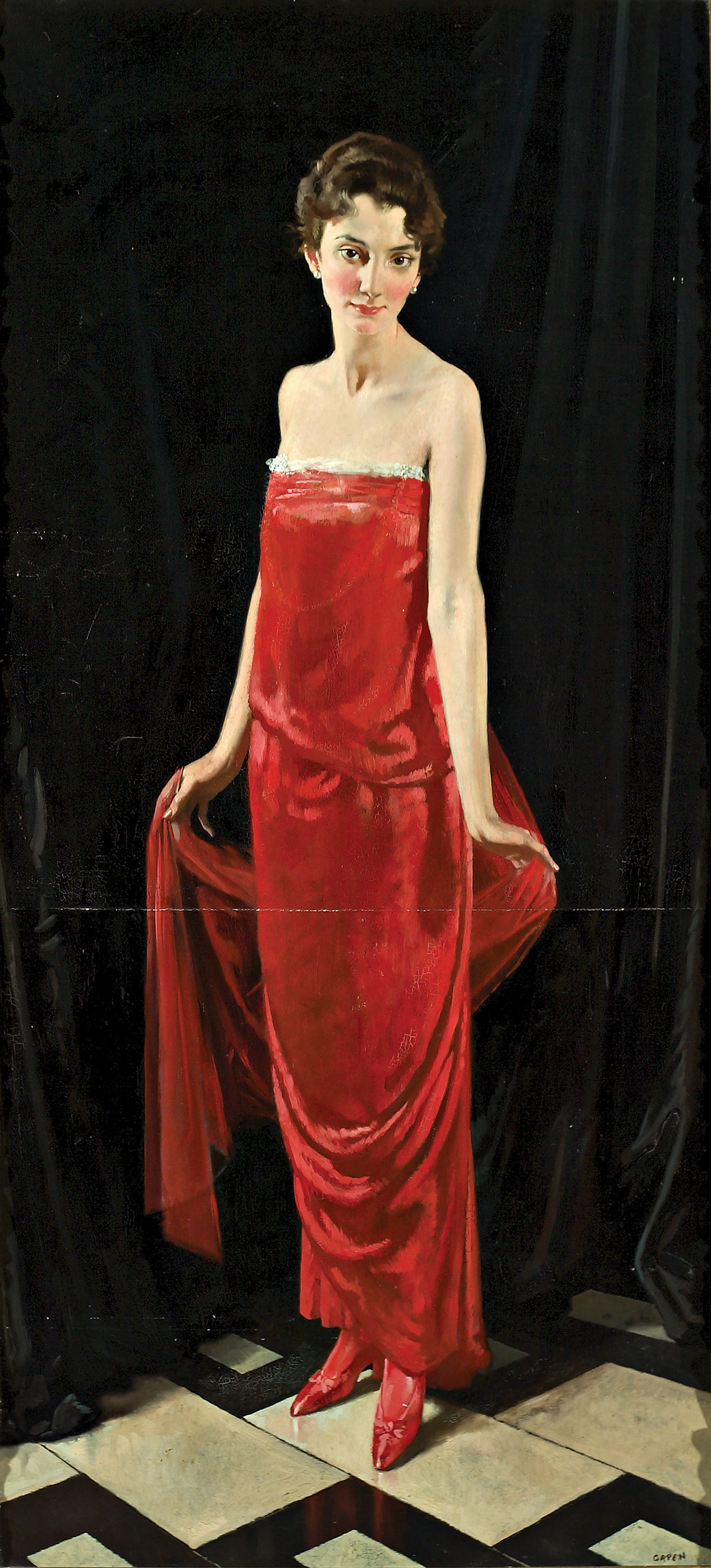 Portrait of María Edwards (not Eugenia Huici de Errázuriz as previously thought), a Chilean woman who participated during the Holocaust in helping to save Jewish children in France and actively helped the French resistance. She was married to Guillermo Errázuriz and that is why she was known as María Errázuriz or Madame Errázuriz, as well as Eugenia.